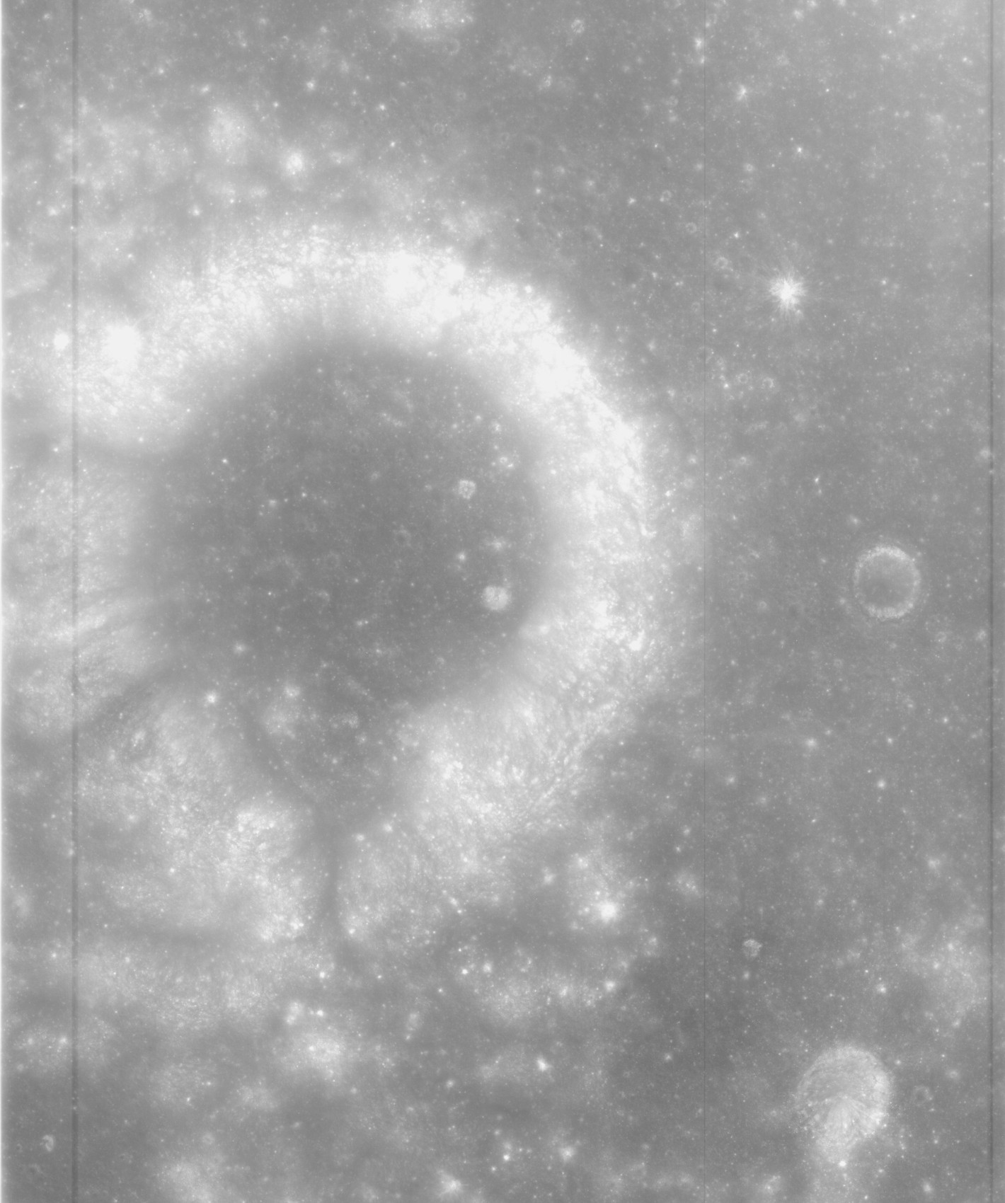 Stewart, on the moon. Approximate north at top.